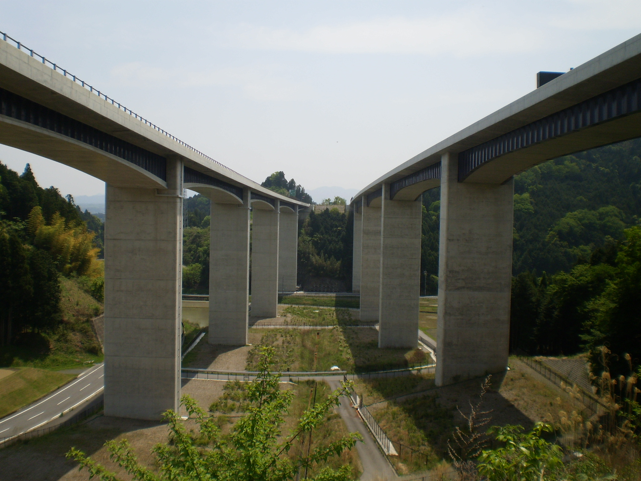 Sugitanigawa bridge of Shin-Meishin Expressway. I took this image at Sugitani Konan-cho Koka City Shiga Pref., Japan